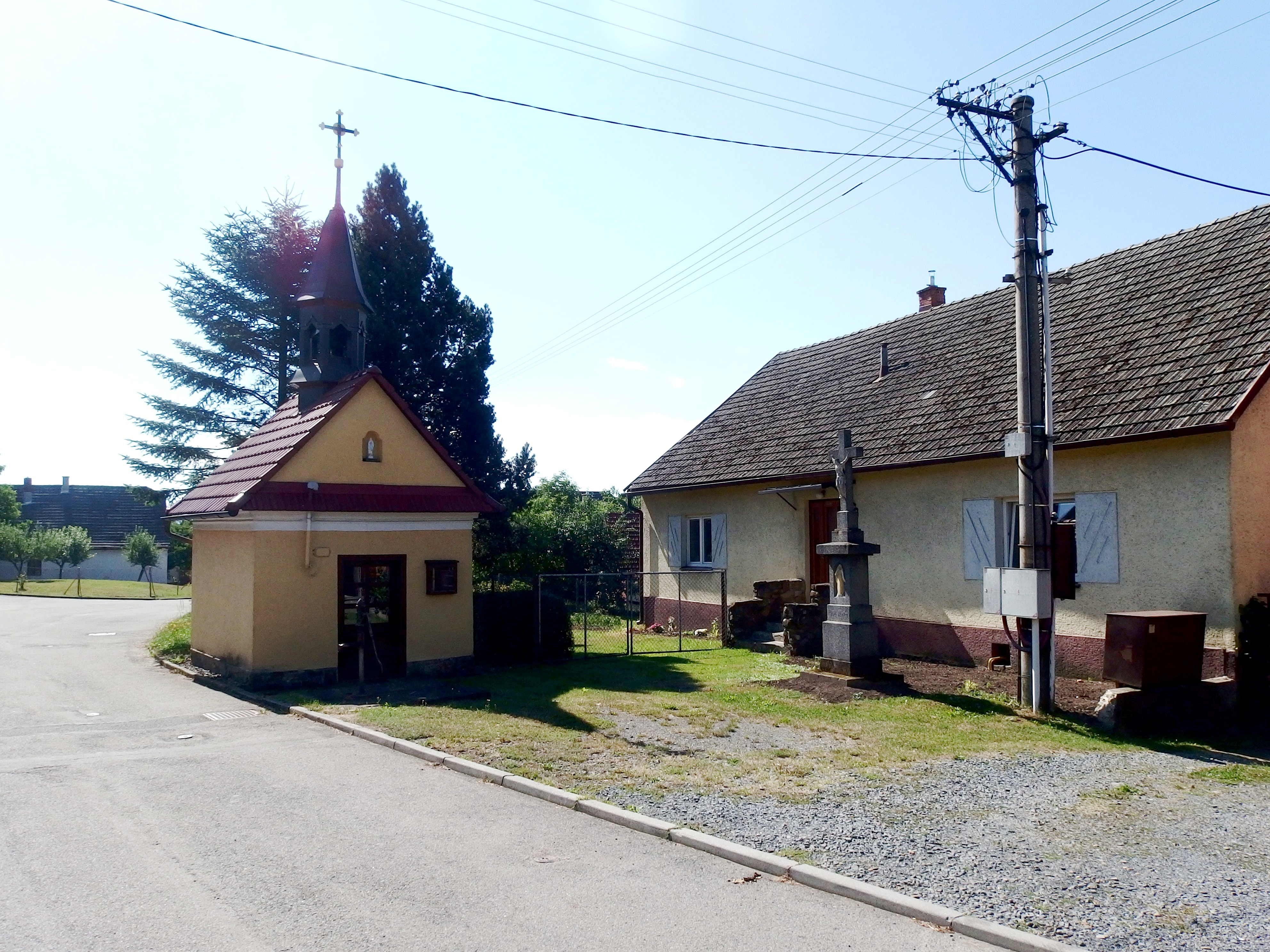 Lešná, Vsetín District, Czech Republic, part Vysoká.